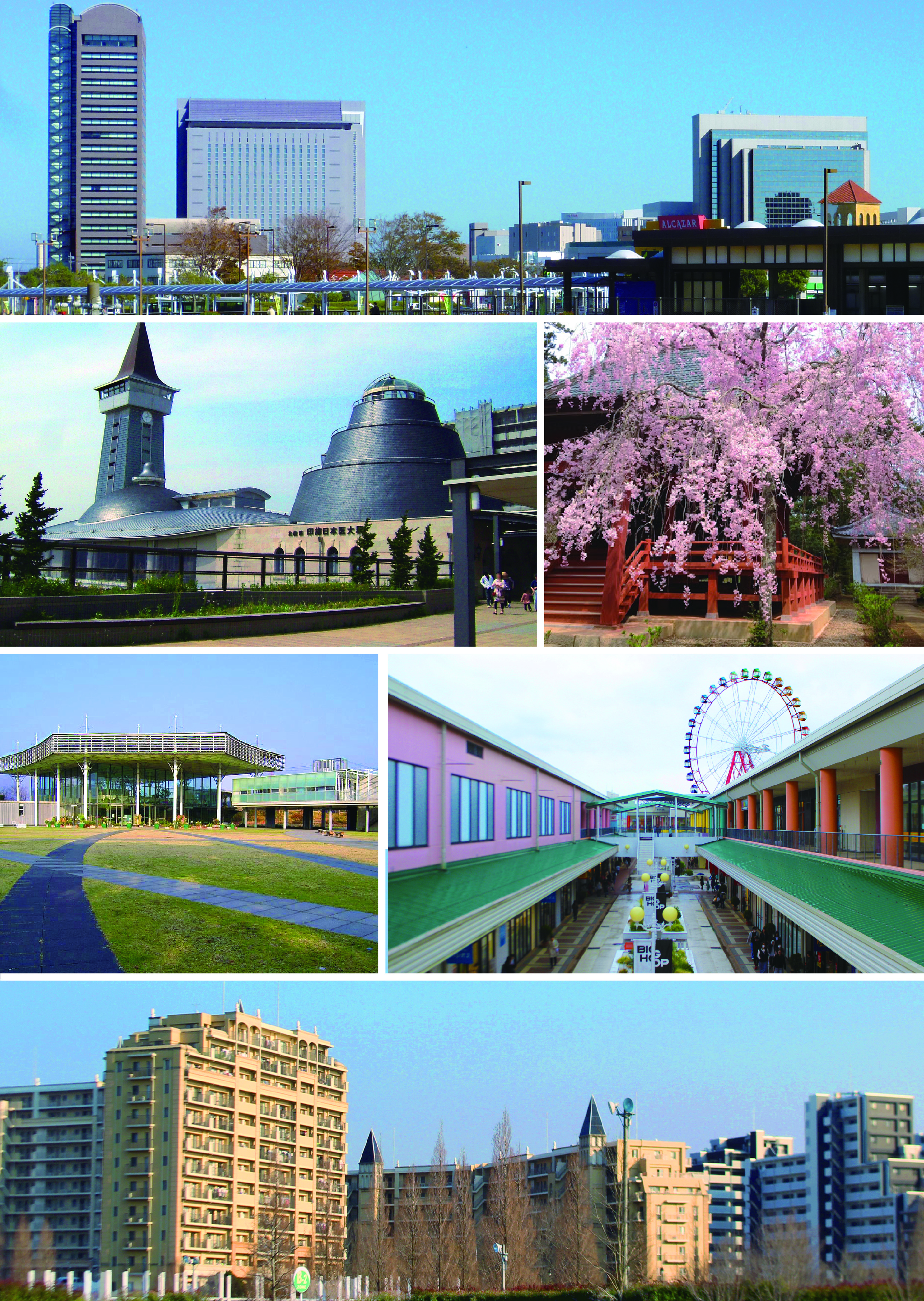 Inzai montage.jpg